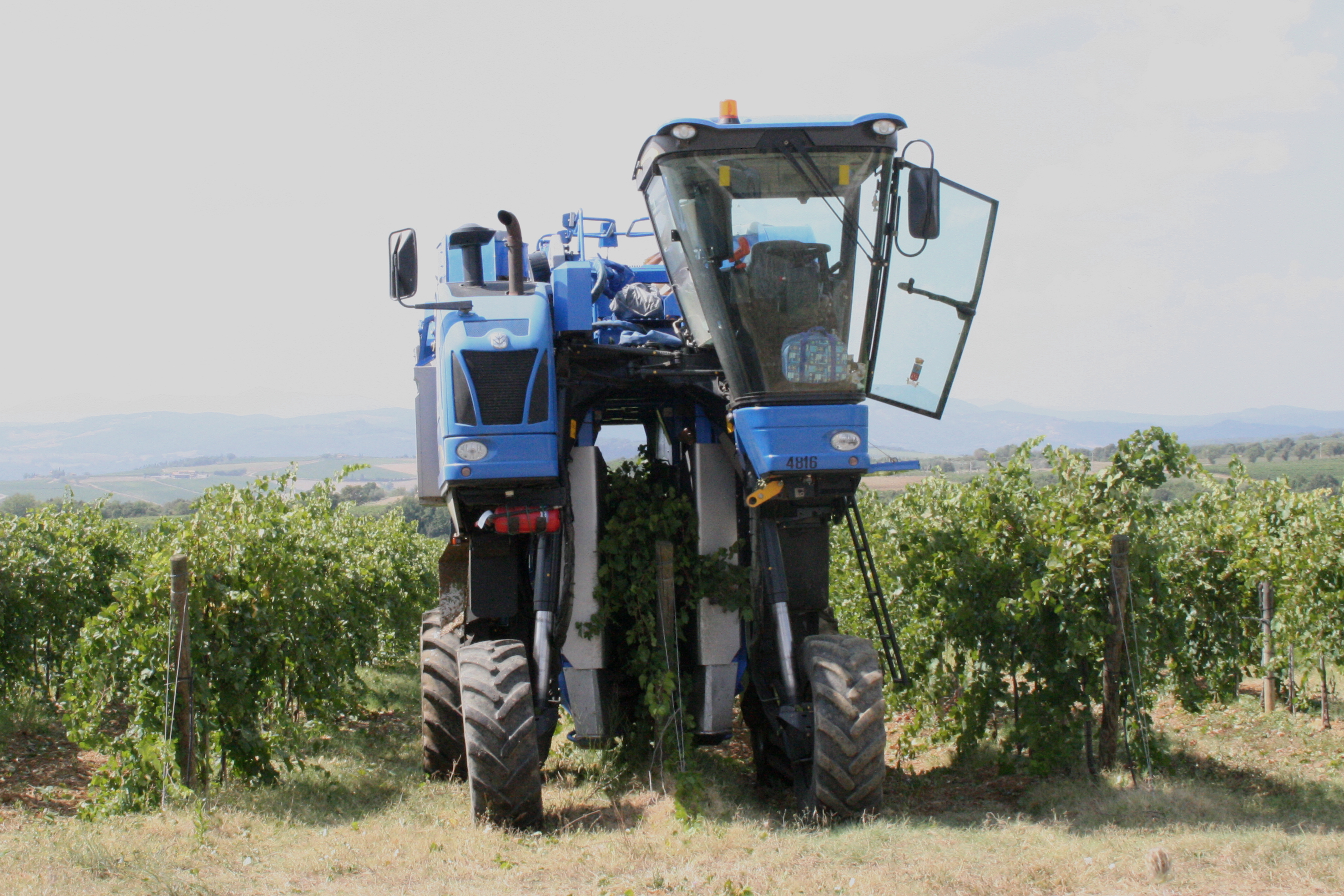 New Holland grape harvester, machine for grape gathering in Tuscany